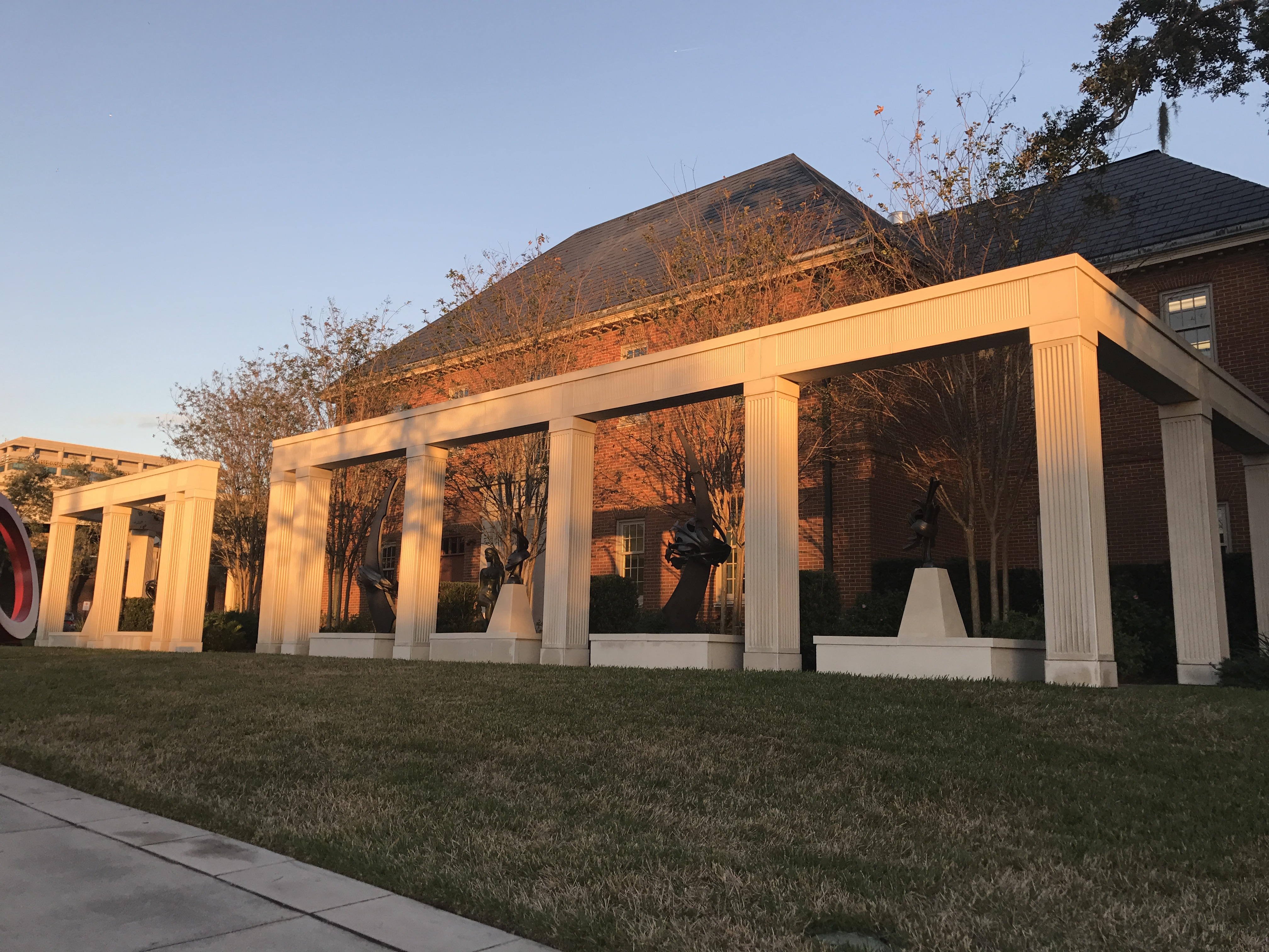 The statue garden in front of the Barnett building of the Cummer Museum.